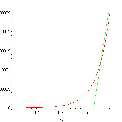 Author: Amr Bekhit